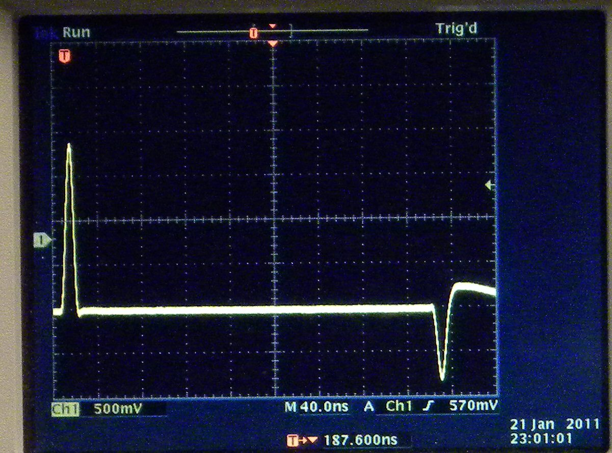 Oscilloscope trace from a TDR (Time Domain Reflectometer) connnected to a cable with a capacitor at the far end.